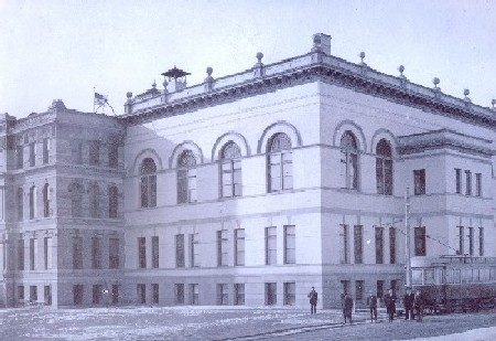 The First State Capitol building wing built in 1903, at Bismarck, North Dakota, United States